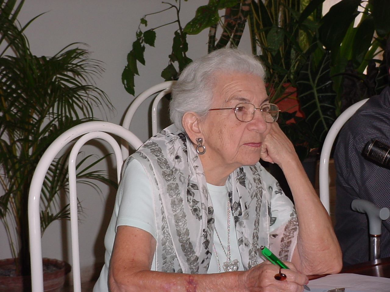 Maria Teresa Linares Savio, Musicologist, and Ethnographer